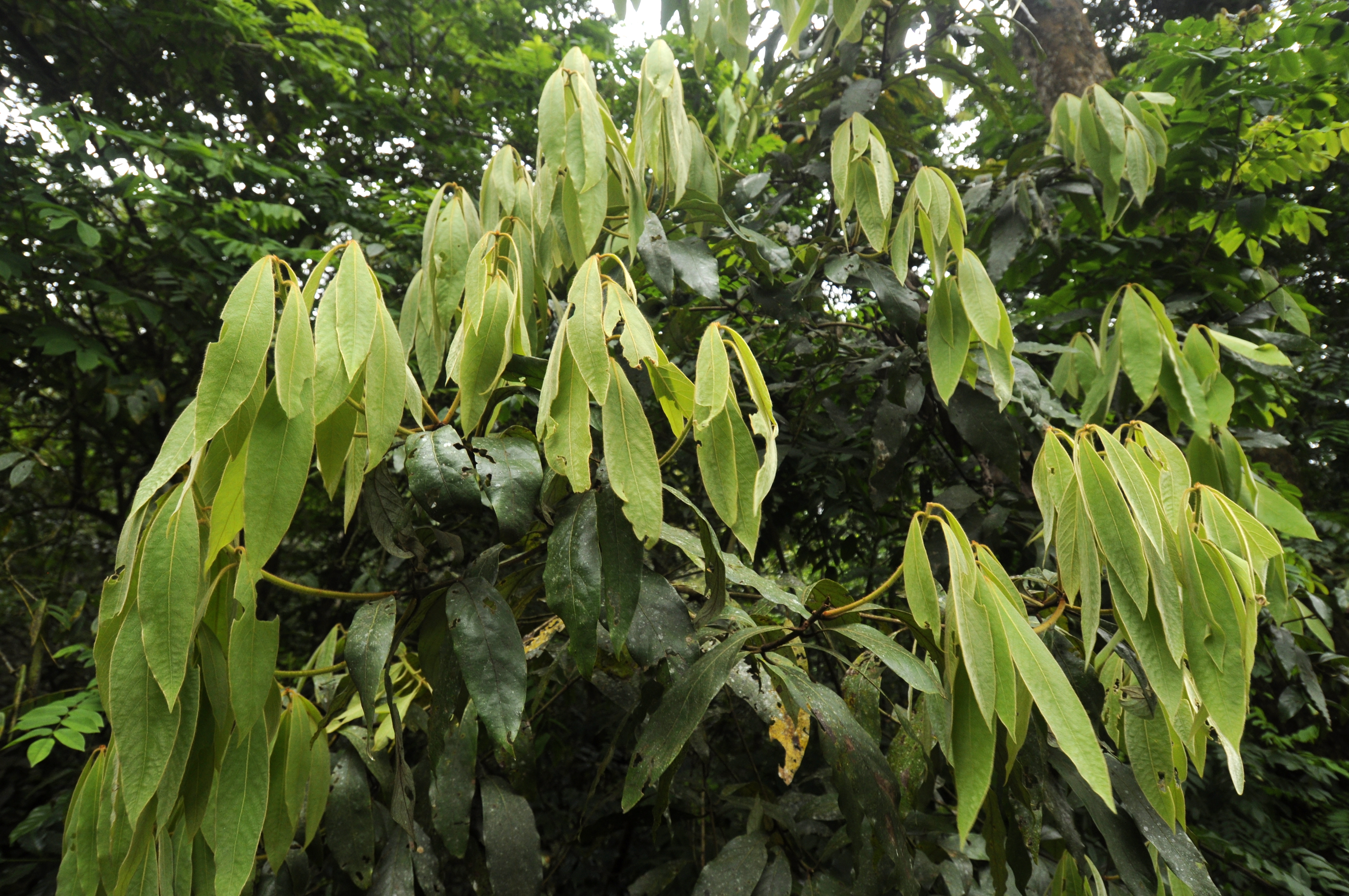 Actinodaphne tree flush of young leaves in the Anamalai hills, India